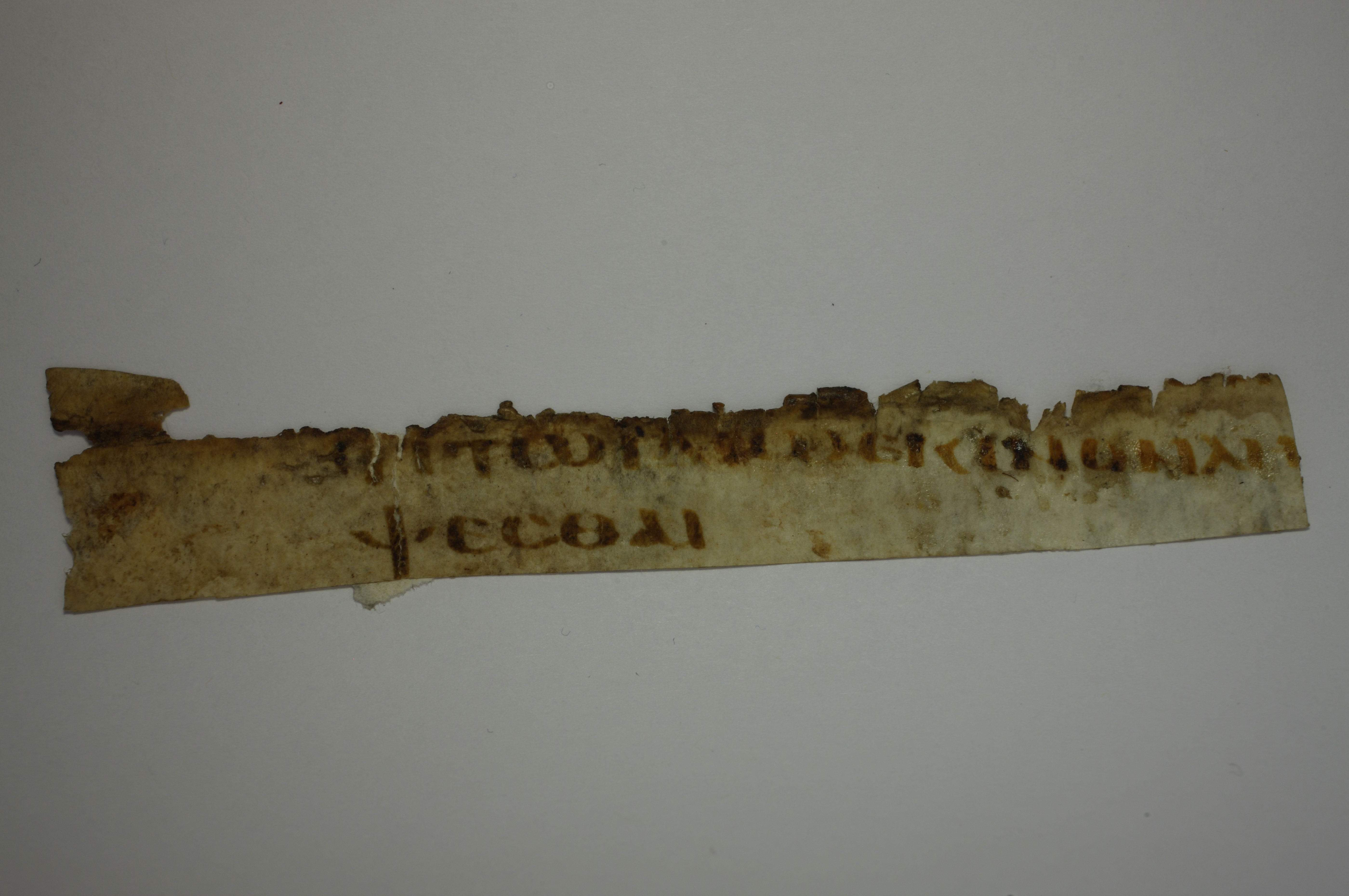 fragment with text from the Gospel of John 5:43